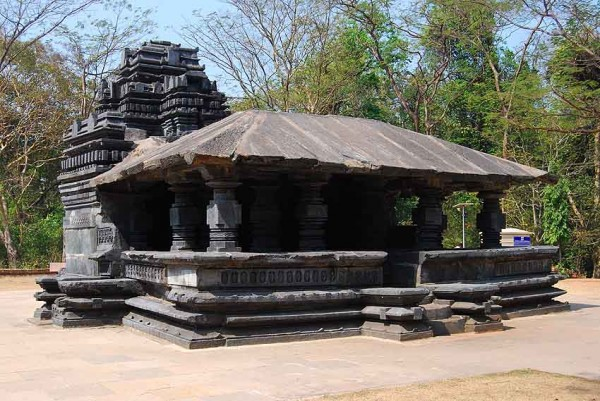 Goa2009p051-600x401